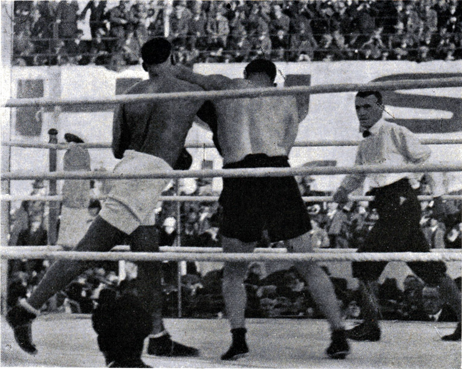 Boxing match on September 18, 1927, in Stockholm between Harry Persson (left) and Bud Gorman. To the right the judge, editor Bülow from Berlin.